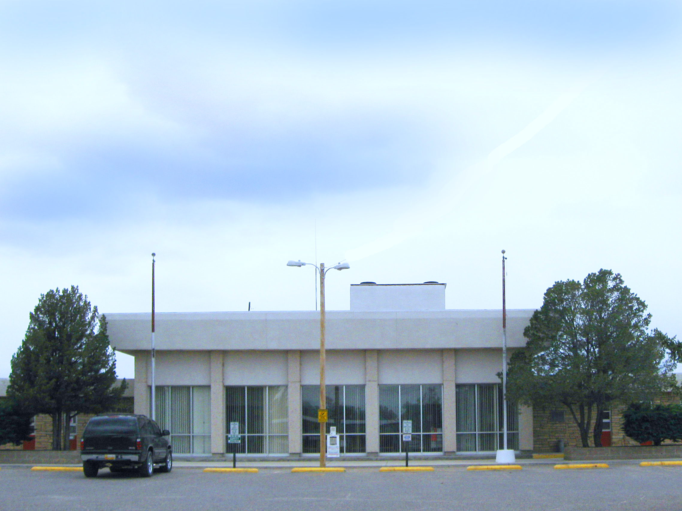 Torrance County (New Mexico) Court House, located at 209 9th Street in Estancia.